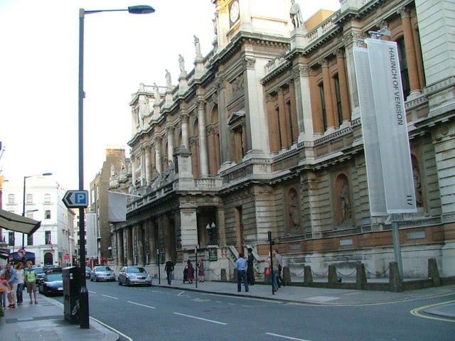 Haunch of Venison on Burlington Gardens W1 The Haunch of Venison gallery, formerly a museum, opened in 2002. It has branches in Zurich, Berlin and New York and exhibits mainly contemporary art.